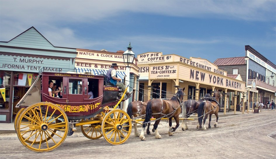 Horse and carriage at Sovereign Hill, Ballarat.